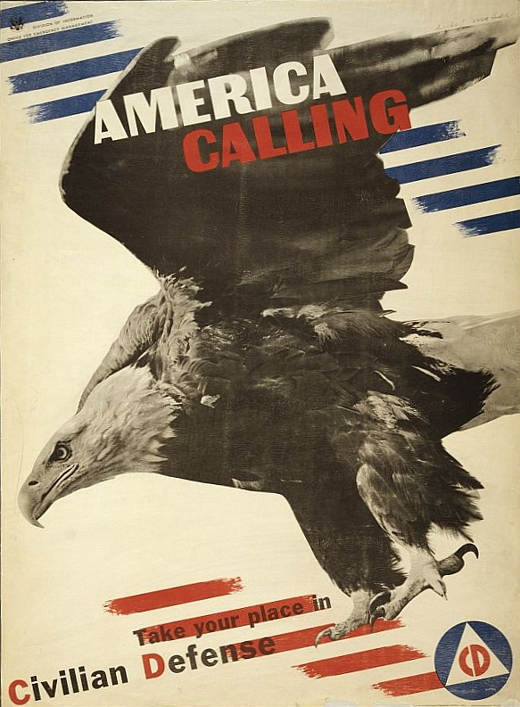 "America calling. Take your place in civilian defense." World War II poster by American photographer and graphic designer Herbert Matter (1907-1984).